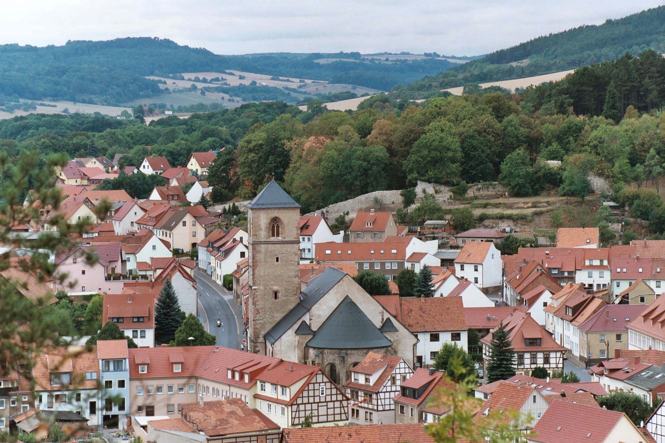 Creuzburg, the town church